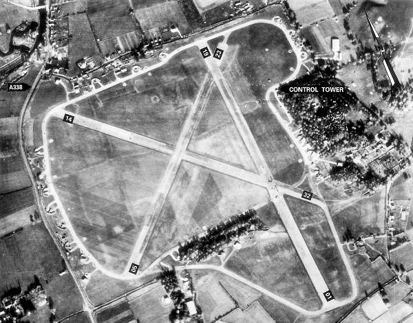 Aerial photograph of Ibsley Airfield, England.